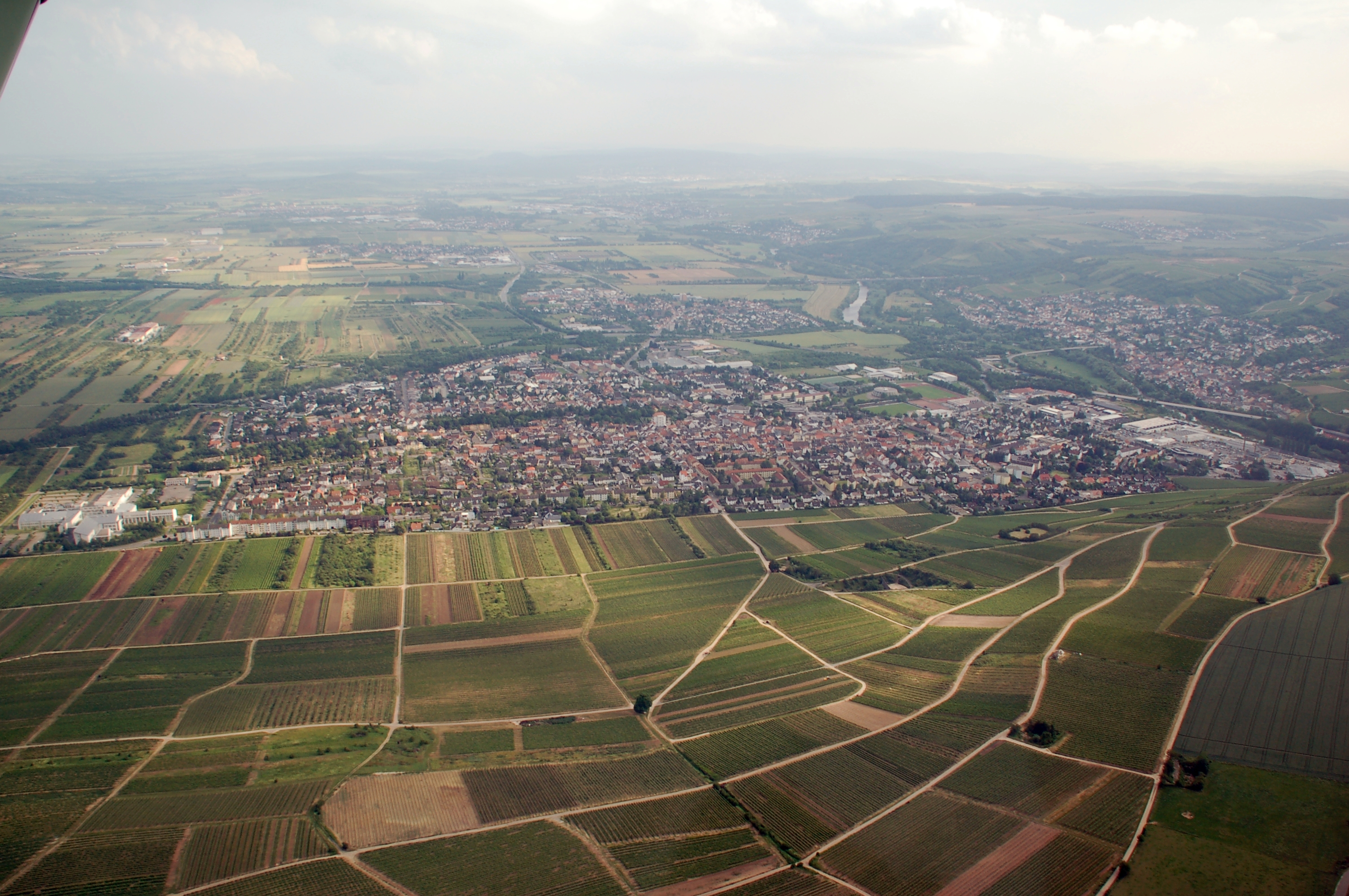 Aerial photograph of Büdesheim, Rhineland-Palatinate, Germany